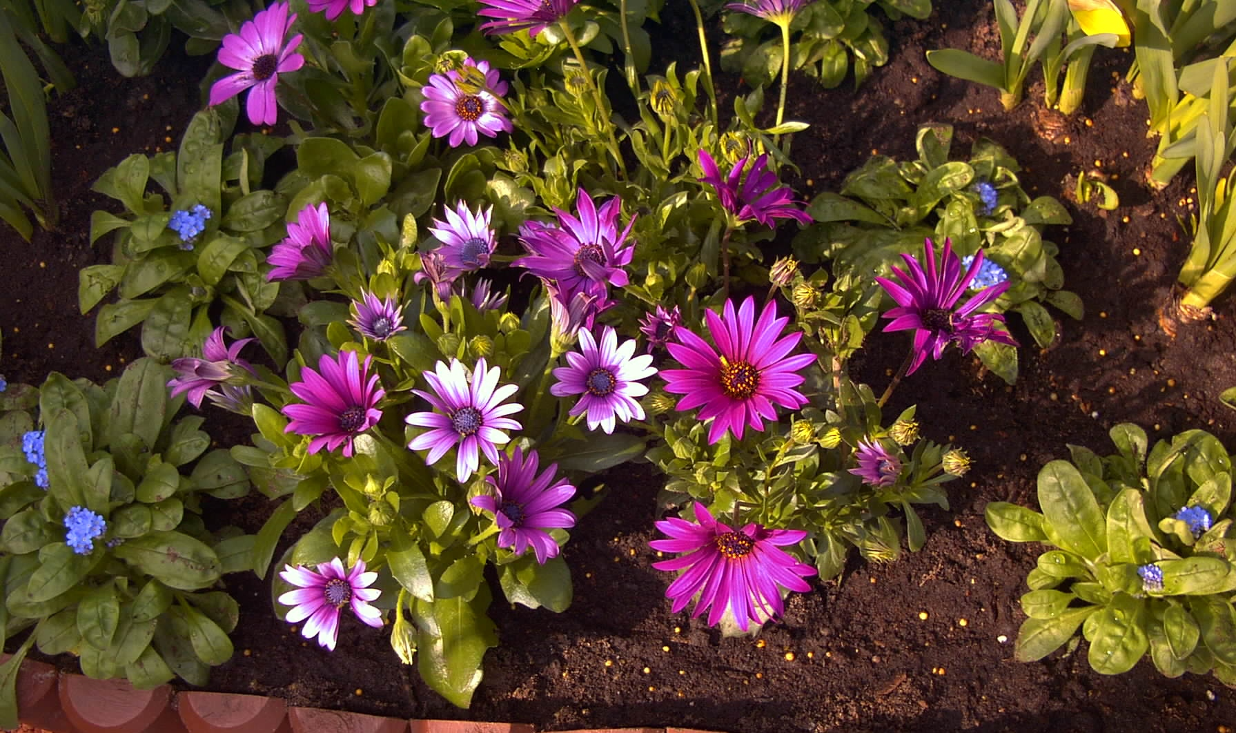 Asteraceae